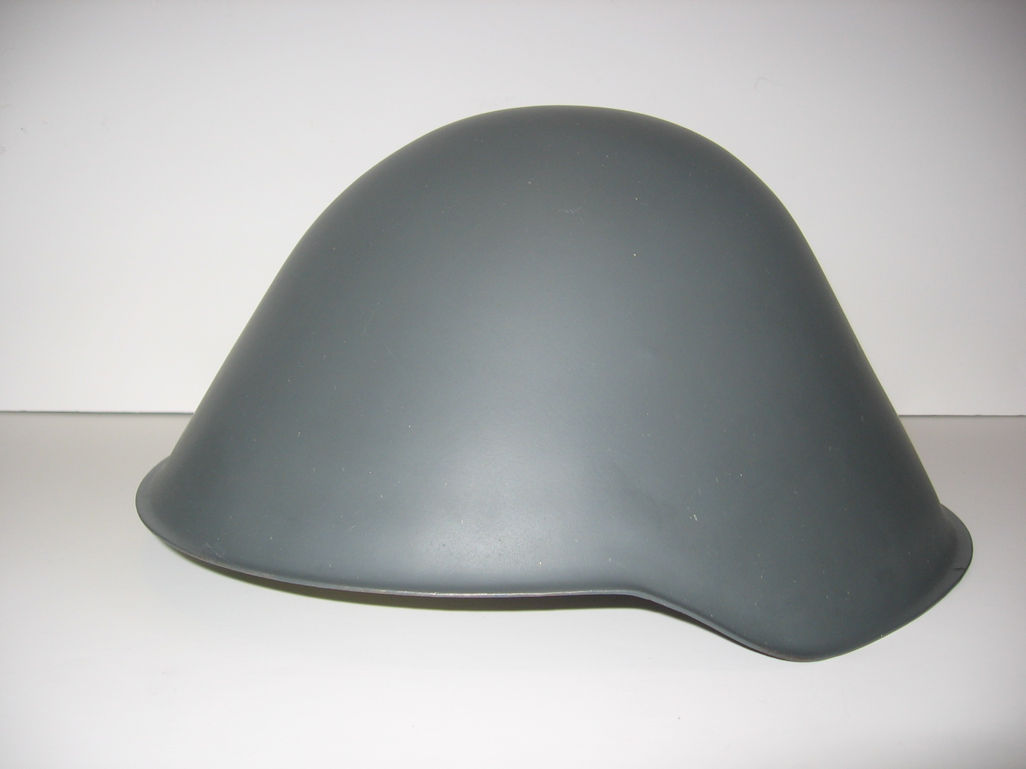 East German M56 I/71 Stahlhelm. Author:Edward J. Picardy